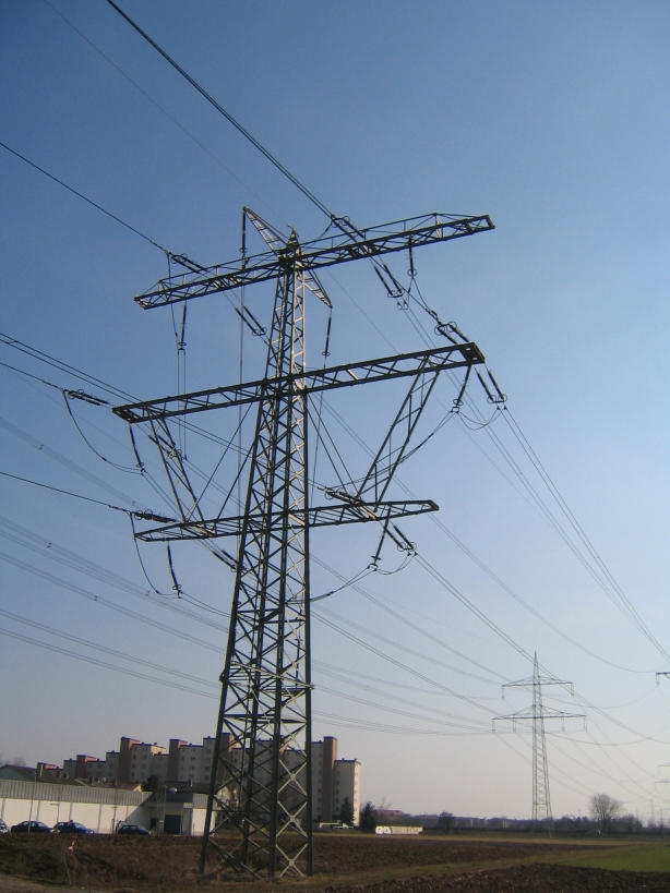 This is a picture of a twisting pylon (transposition tower) near Mannheim - Germany (entry of Ilvesheim coming from Ma-Feudenheim)